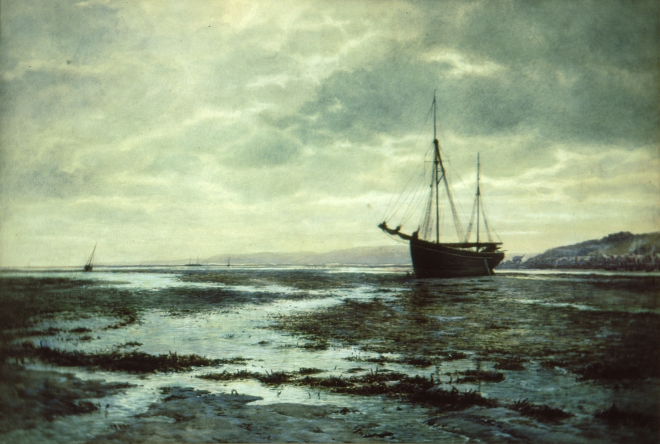 unsigned watercolor